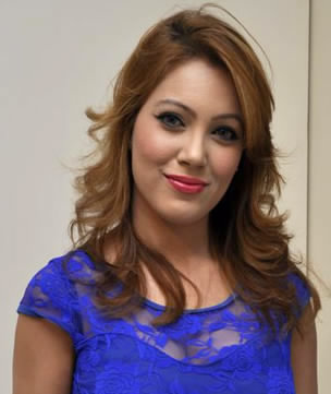 Munmun Dutta at Vikram Bawa's photography exhibition